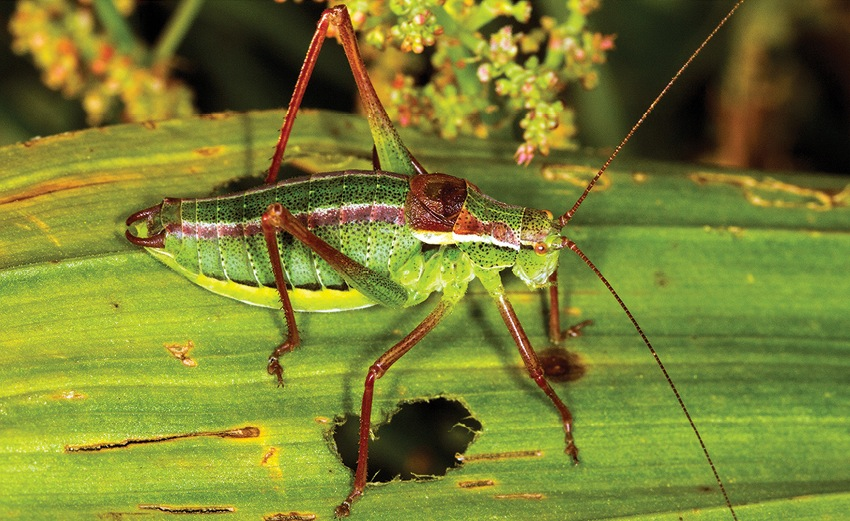 Isophya dochia male habitus.